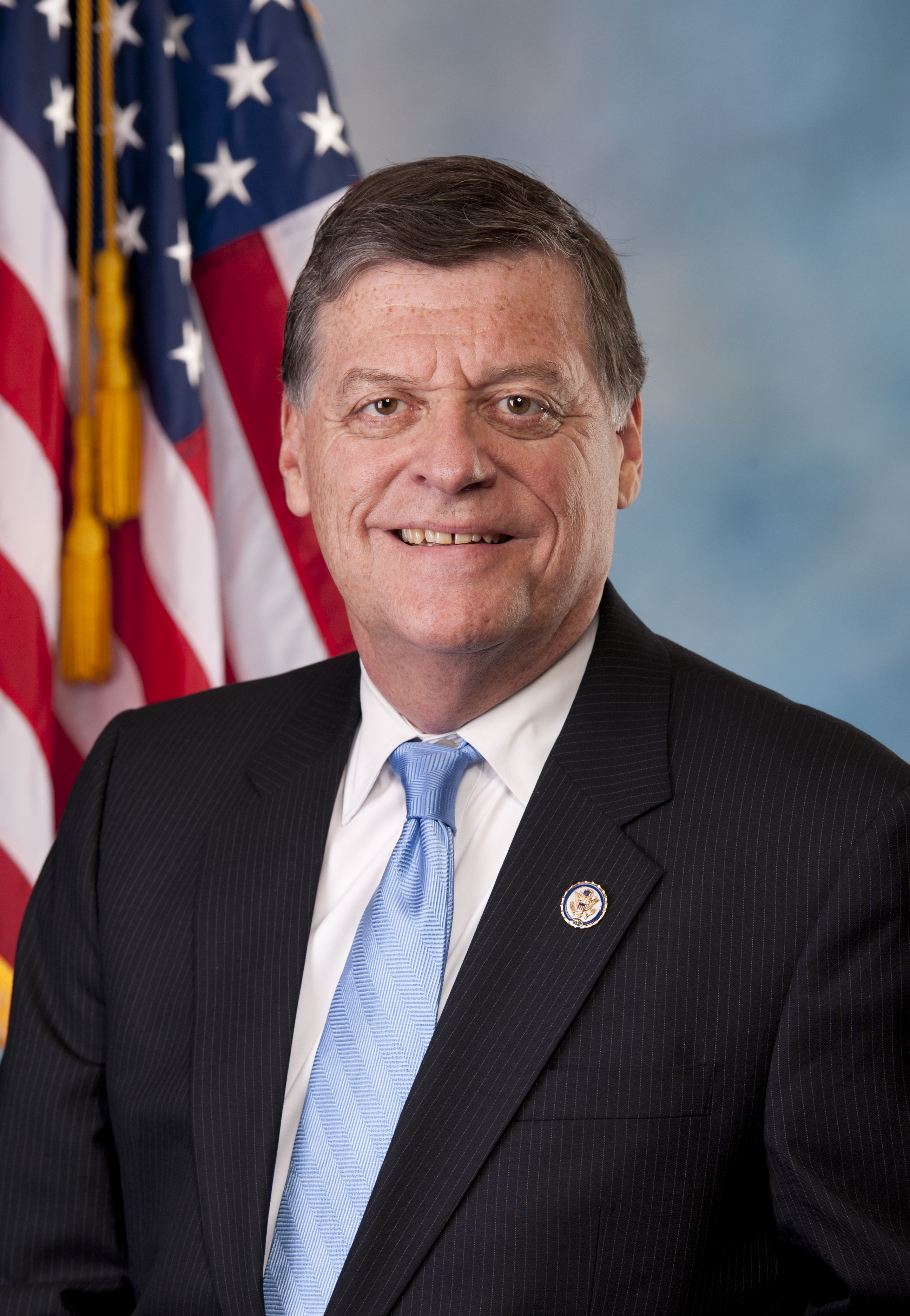 Official Congressional portrait of Congressman Tom Cole.